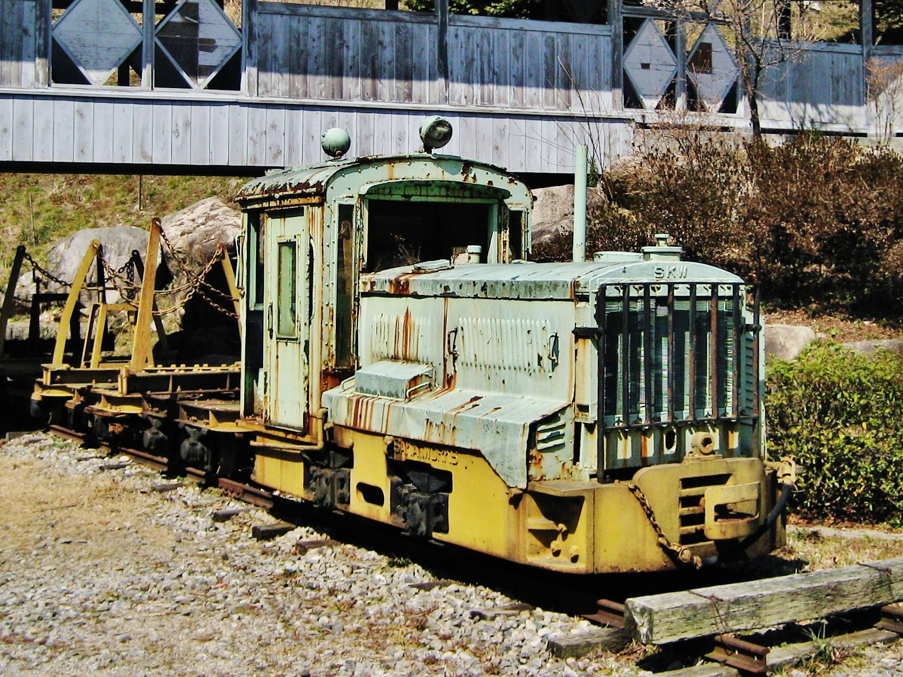 Fukuzawa Momosuke Memorial and Mountain Historical Museum Kiso Forest Railway Sakai diesel locomotive.